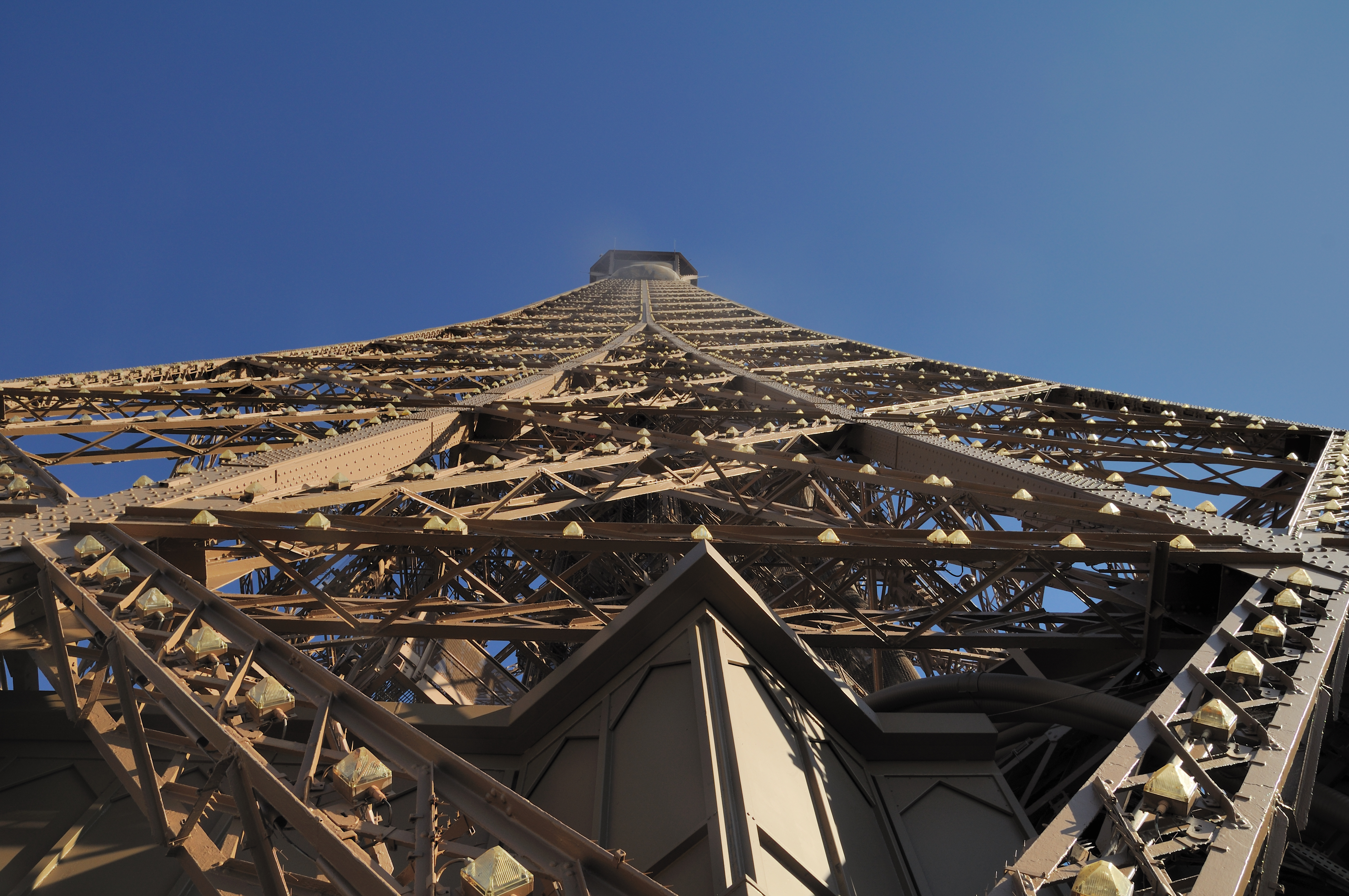 Eiffel Tower: view up from 2nd plattform